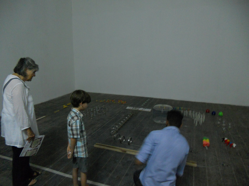 Visitors seeing Ryota Kuwakubos instalation at Kochi muziris bienelle 2014